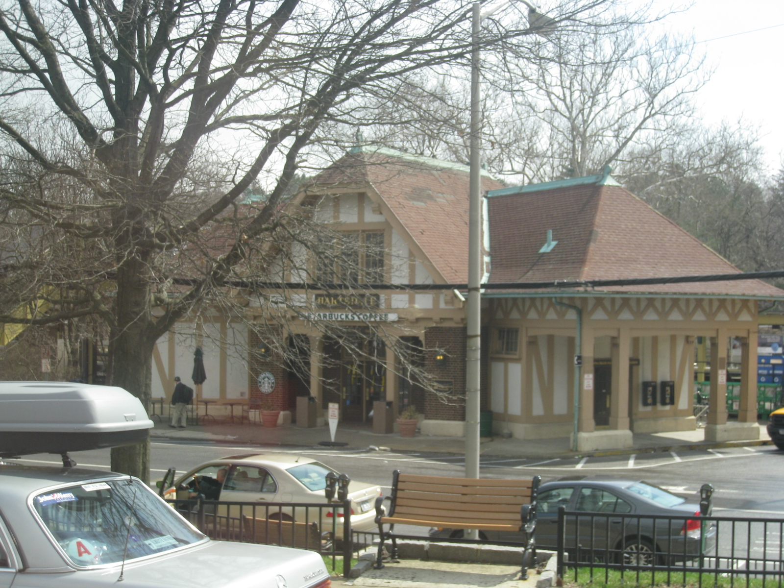 Looking east at Hartsdale Station.